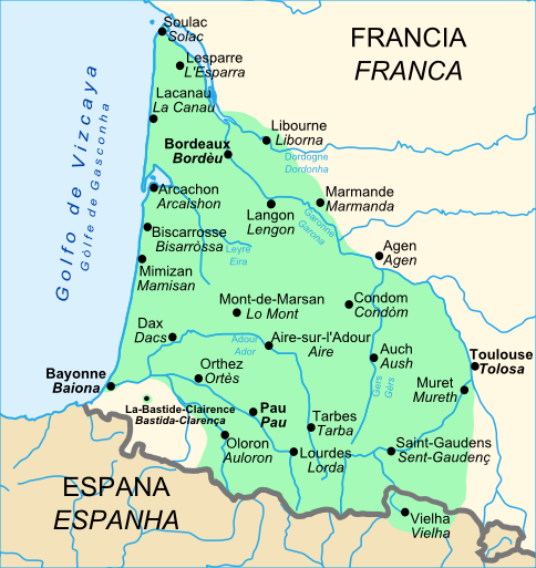 map of Gascony